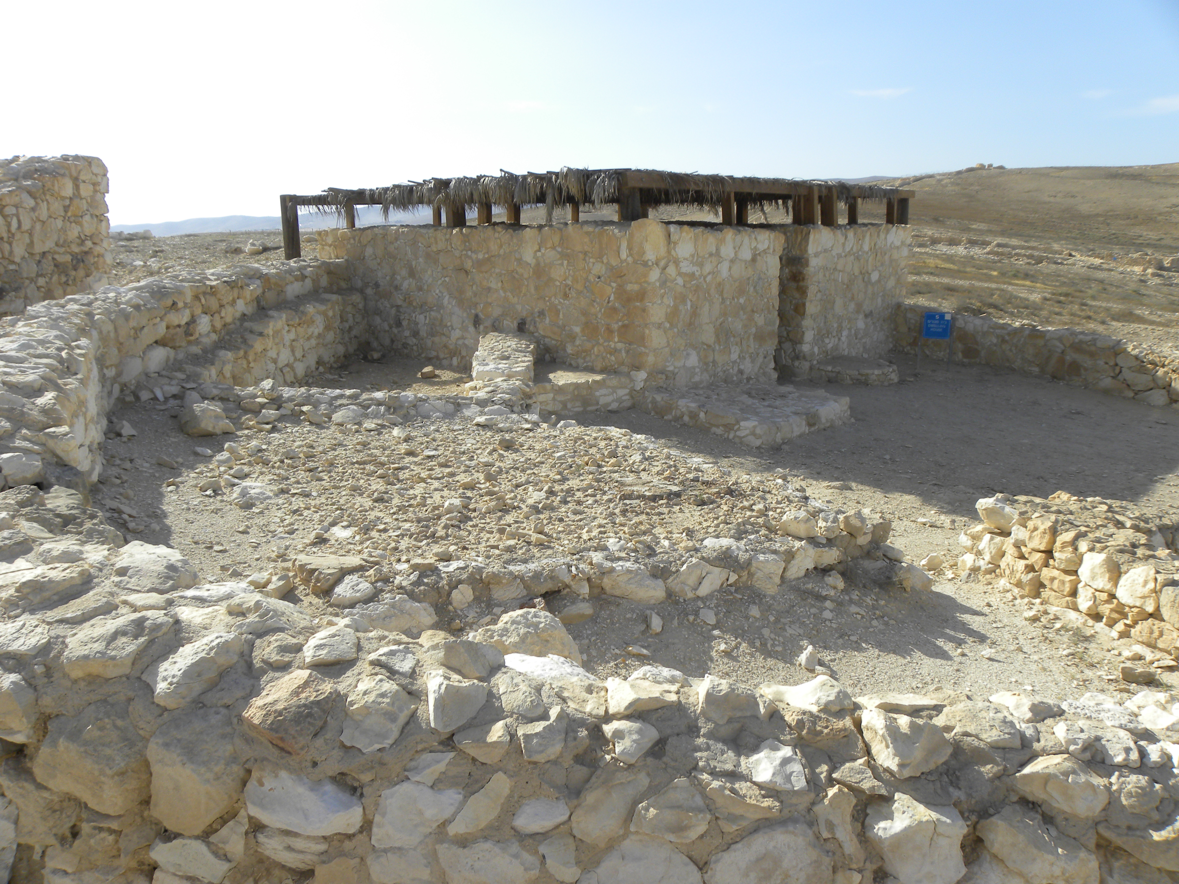 Typical structures in the Early Bronze Age city of Arad (3150-2200 BCE). The site was abandoned for some centuries before the re-establishment of an Israelite fort on the summit of the tel. The bulk of the city, though, was not reinhabited during Israelite times. Tel Arad